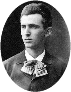 The image of Nikola Tesla (1856-1943) at age 23.